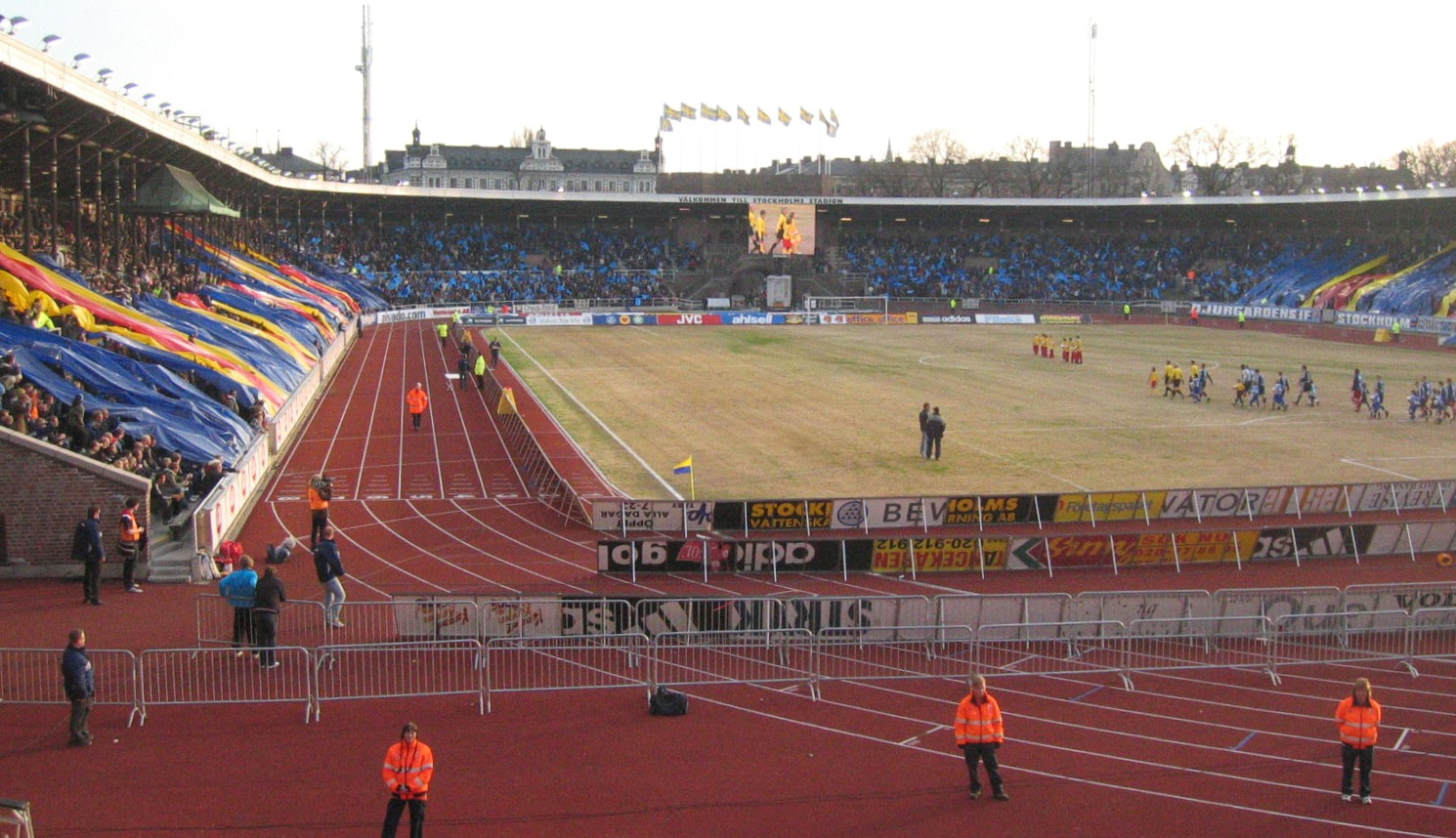 Stockholms Olympiastadion as seen from the north stand (the away stand). Photo taken during the match Djurgårdens IF–IFK Göteborg.